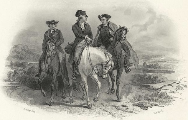 "Washington, Henry & Pendleton going to the First Congress," lithograph by Henry Bryan Hall, showing George Washington, Patrick Henry and Edmund Pendleton traveling from Virginia to the First Continental Congress at Philadelphia. Image courtesy of the New York Public Library Digital Collection.